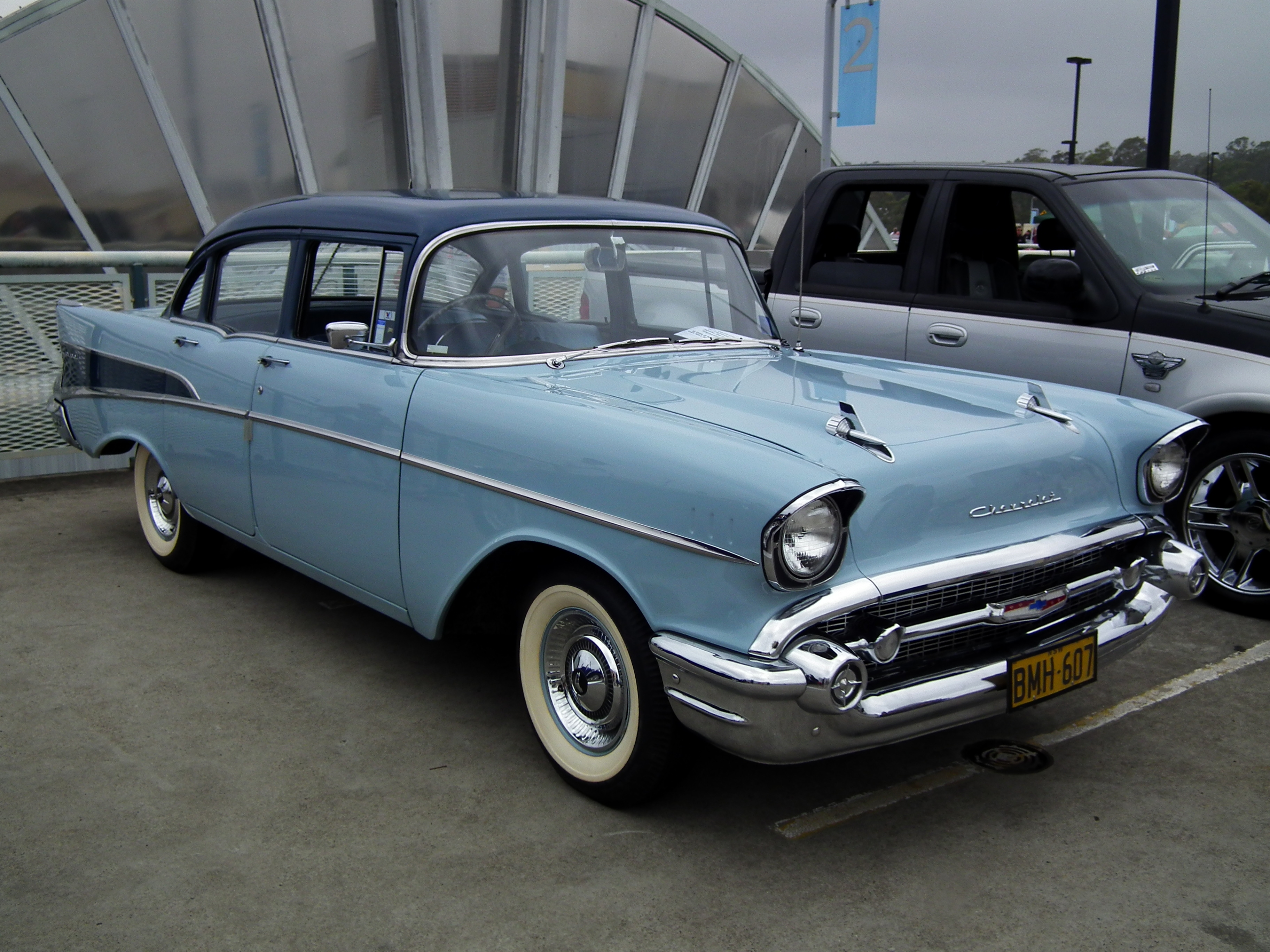 1957 Chevrolet Two-Ten sedan. Australian delivered. Taken at the 2013 New South Wales All American Day, held at Castle Towers Shopping Centre, Castle Hill, Sydney.